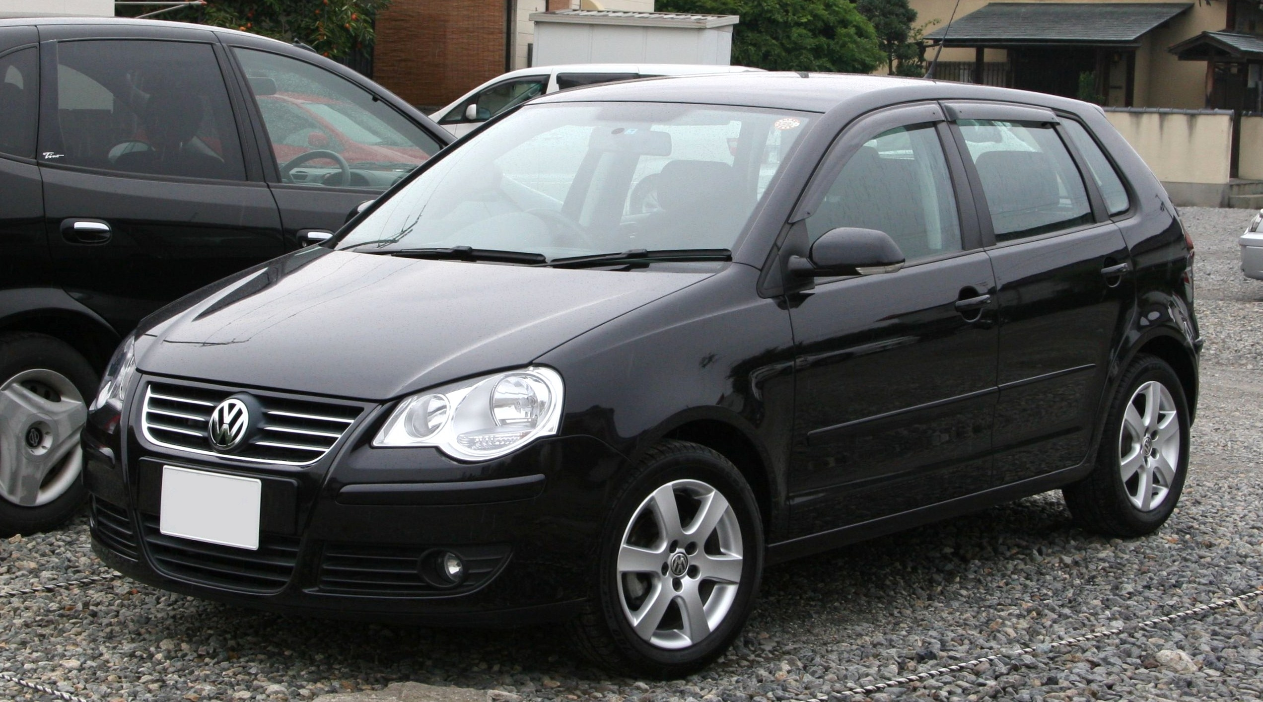 VW Polo